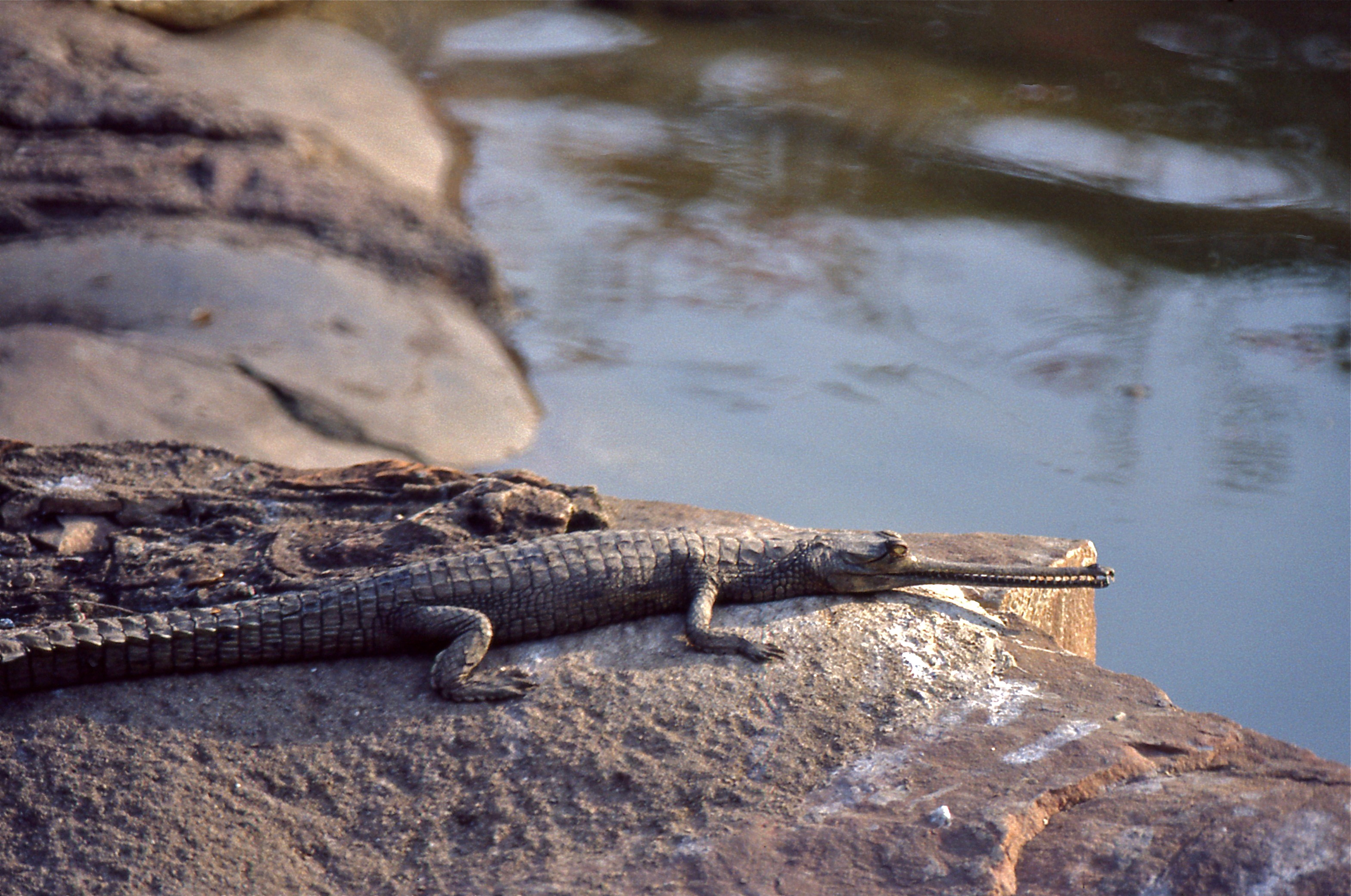 Chambal Gardens, Kota, Rajasthan, INDIA Scanned Slide from March 1991